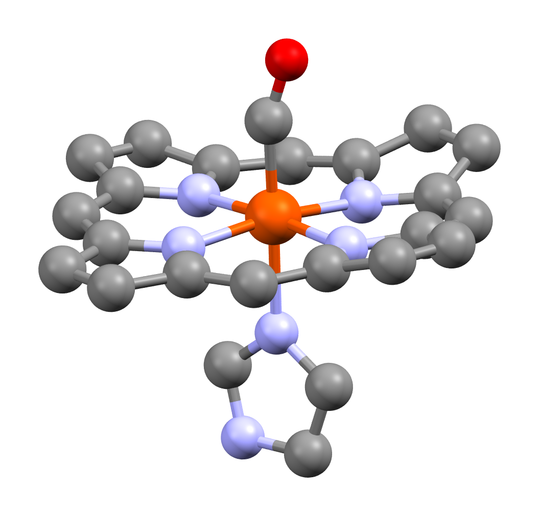 The heme fragment of human carboxyhemoglobin, from the crystal structure determined in Gregory B. Vásquez, Xinhua Ji, Clara Fronticelli, Gary L. Gilliland (1998). "Human Carboxyhemoglobin at 2.2 Å Resolution: Structure and Solvent Comparisons of R-State, R2-State and T-State Hemoglobins". Acta Crys. D 54 (3): 355–366. published as PDB 1AJ9.